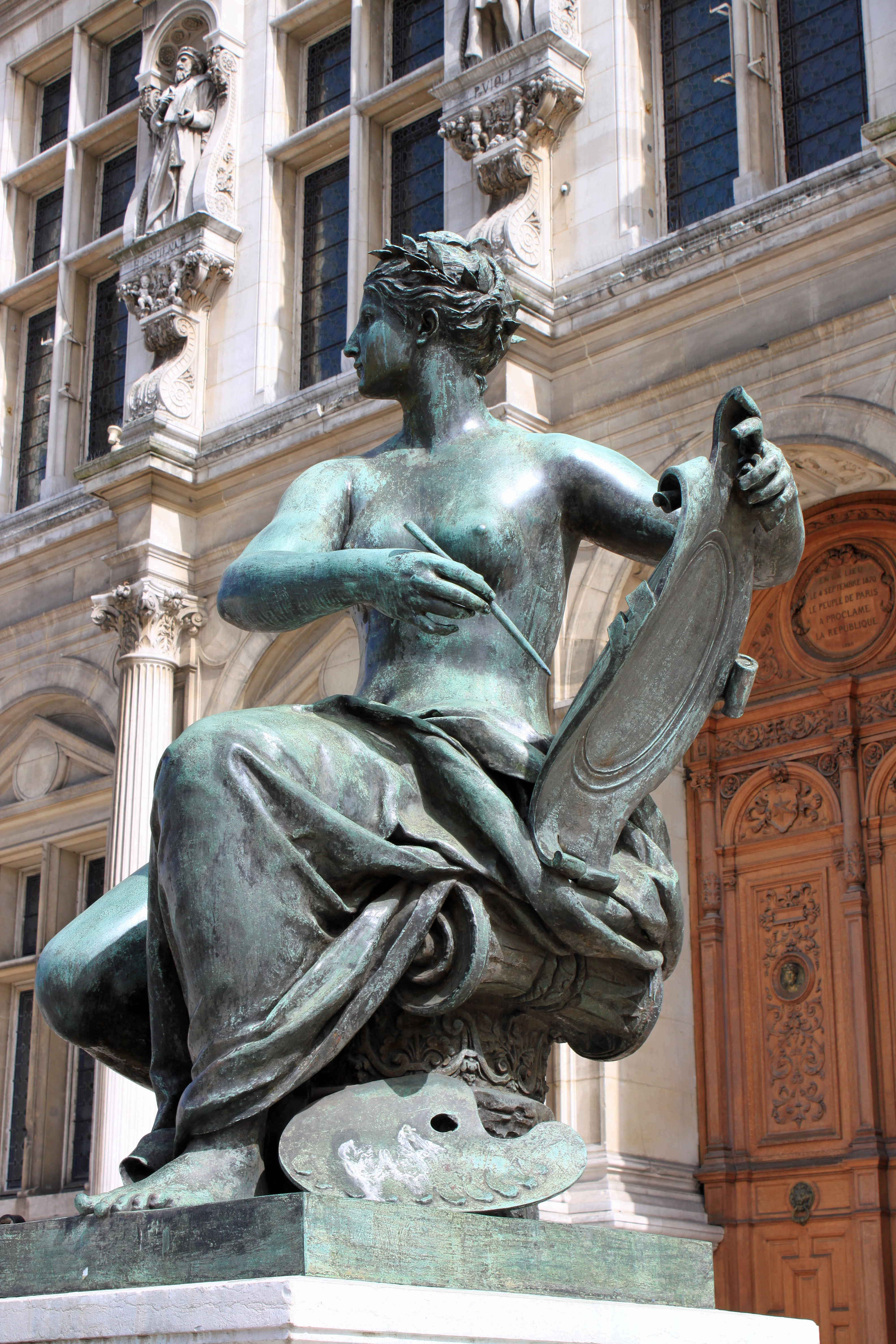 Laurent Marqueste,L'Art, 1887, bronze, front of the Hôtel de Ville, Paris.